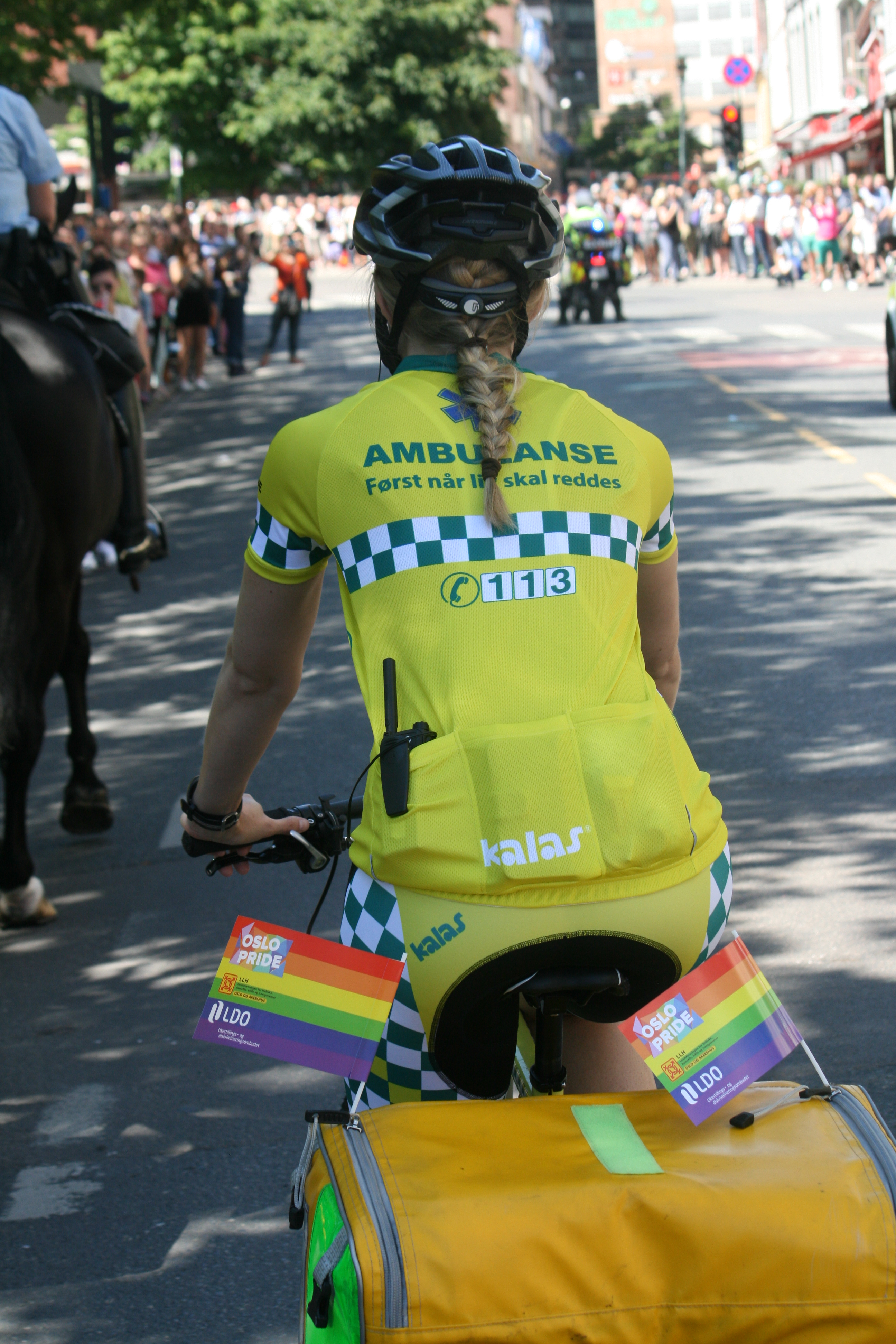 Norwegian bike ambulance at the Oslo Pride parade 2015.